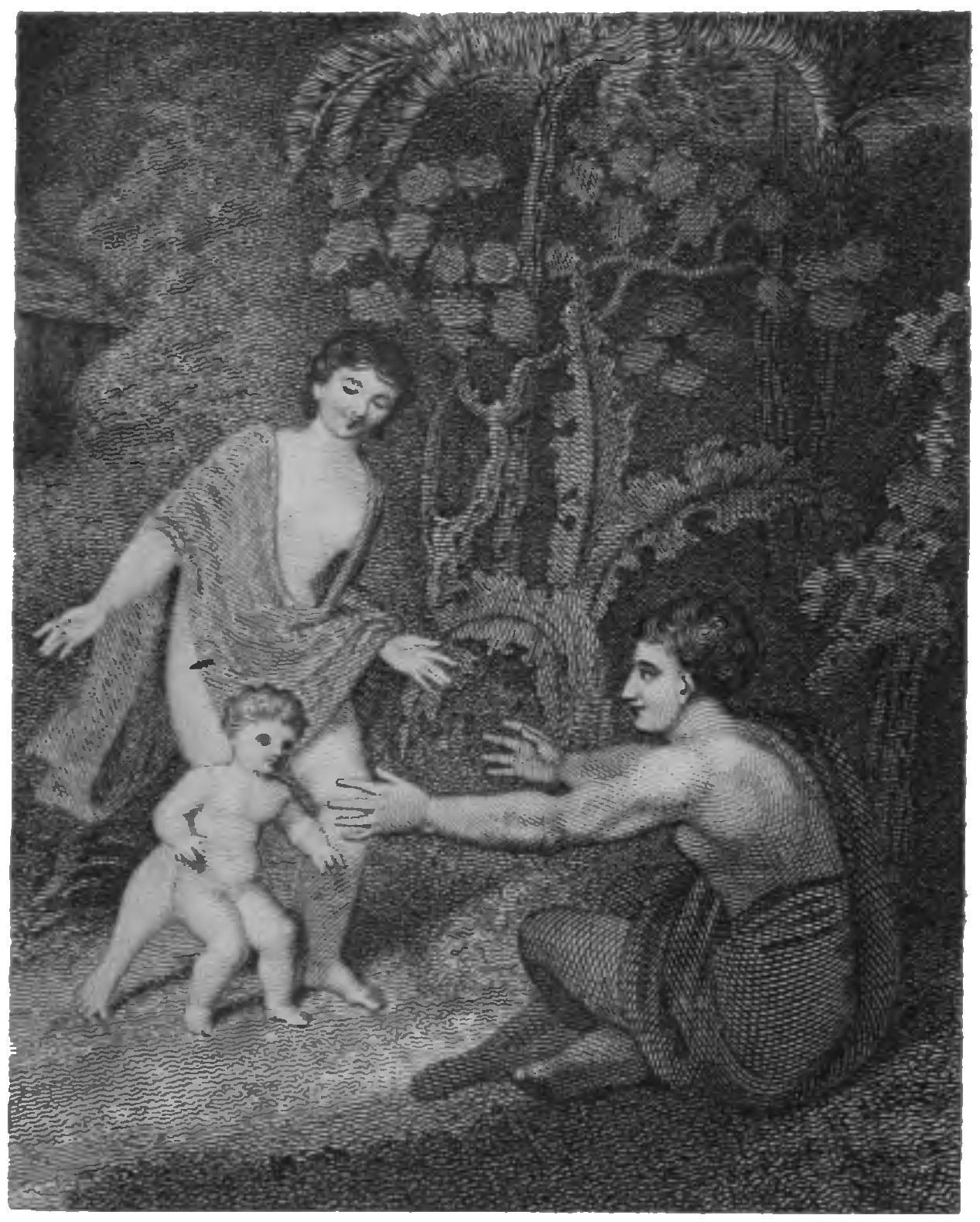 Illustration to Robert Southey's A Tale of Paraguay